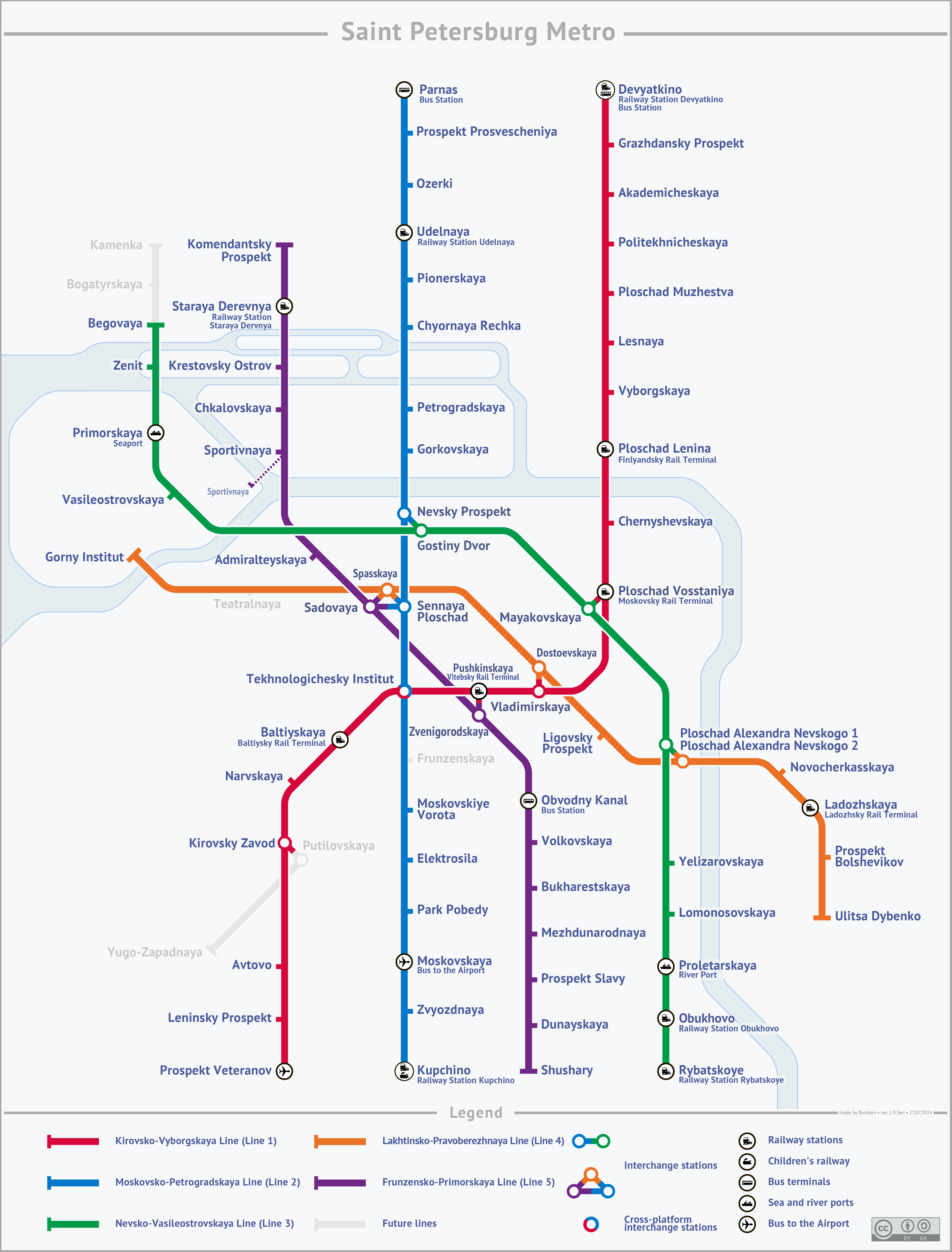 Saint Petersburg metro map. English version.